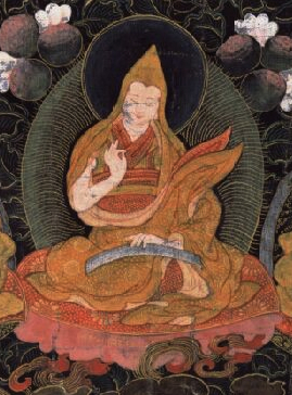 Drubkhang Gelek Gyatso b.1641 - d.1713